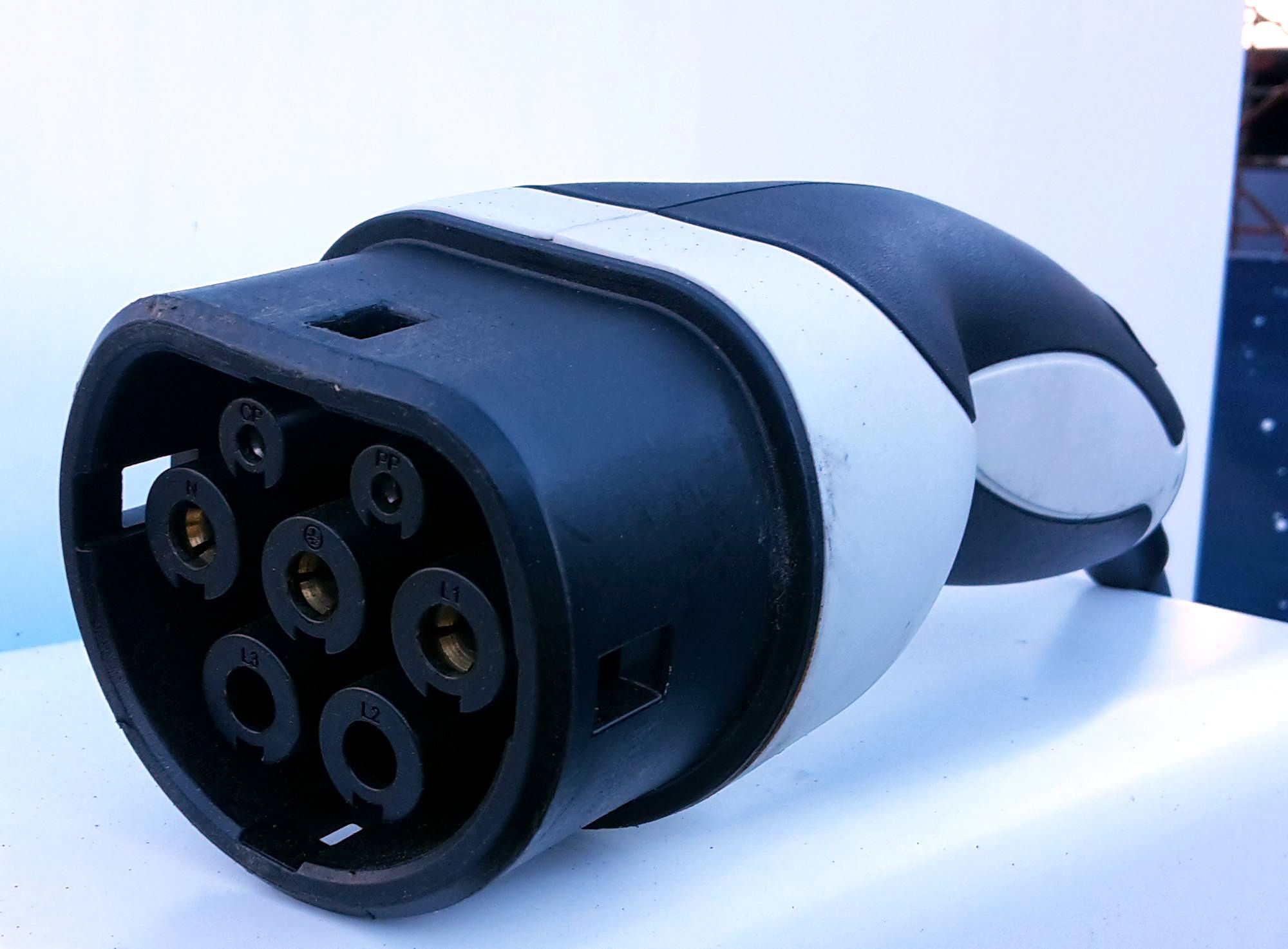 Single phase IEC 62196 type 2 charging coupler for electric vehicles at a charging station in Magdeburg/Germany